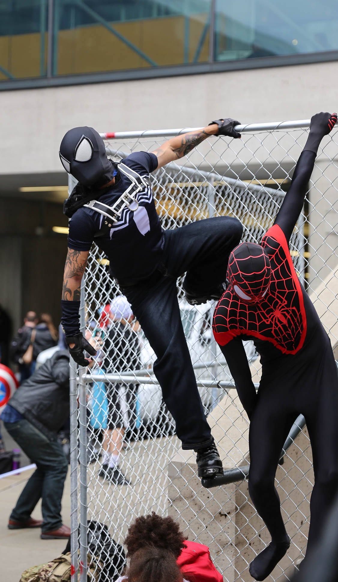 Cosplay at the 2016 New York Comic Con.